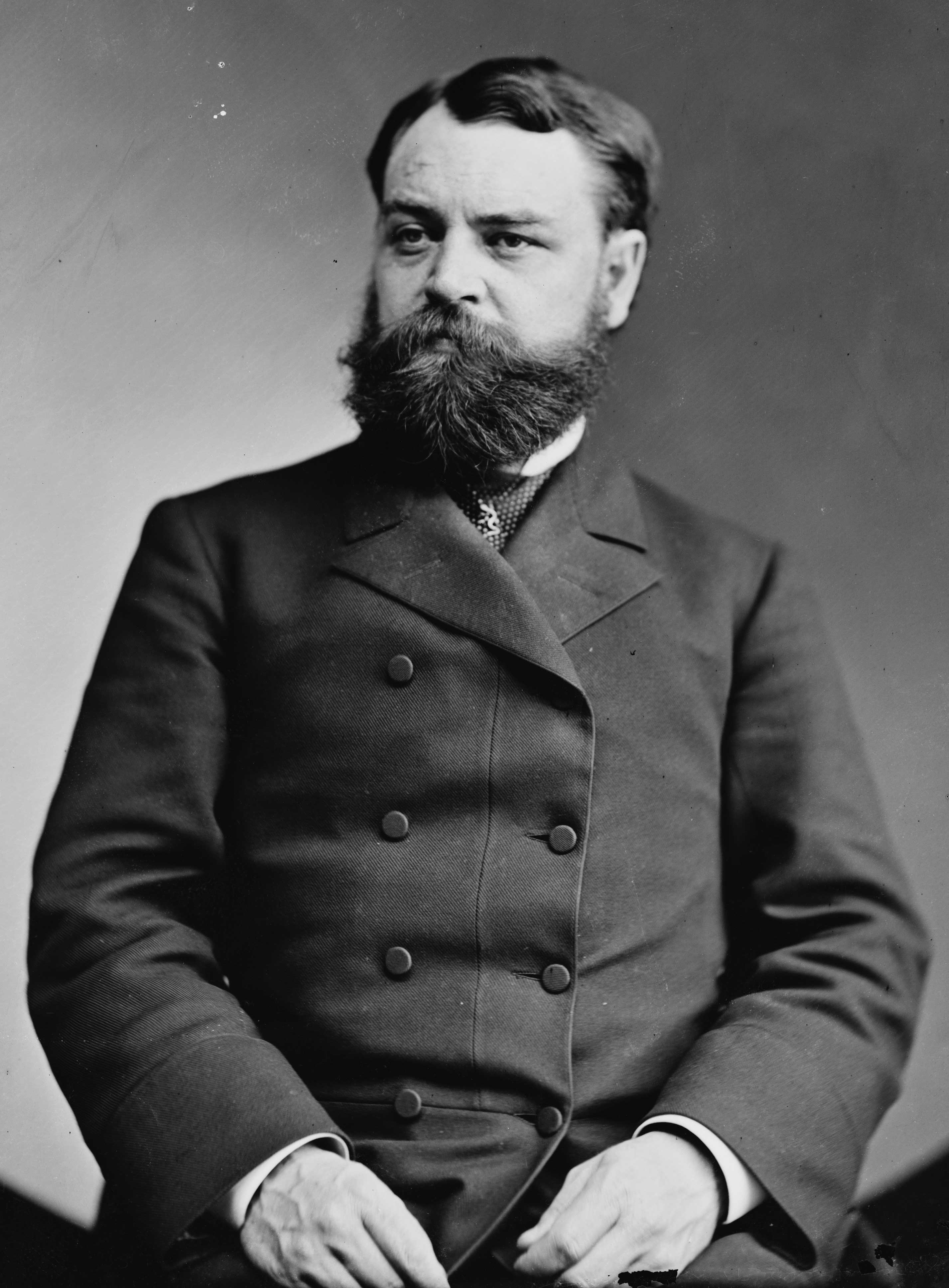 Robert Todd Lincoln